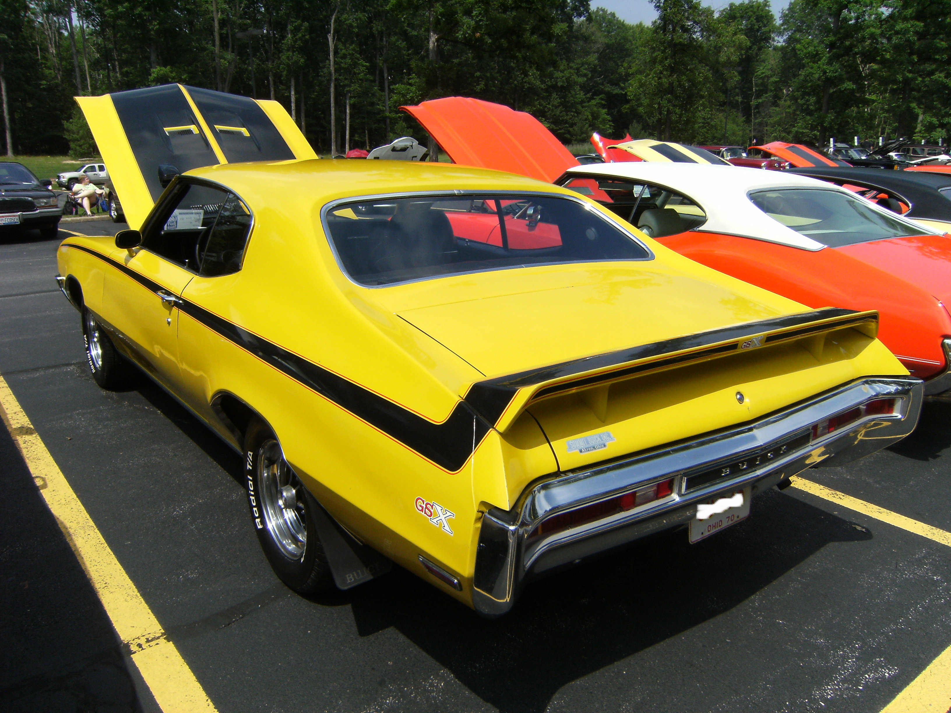 1970 Buick GSX 455 Stage I